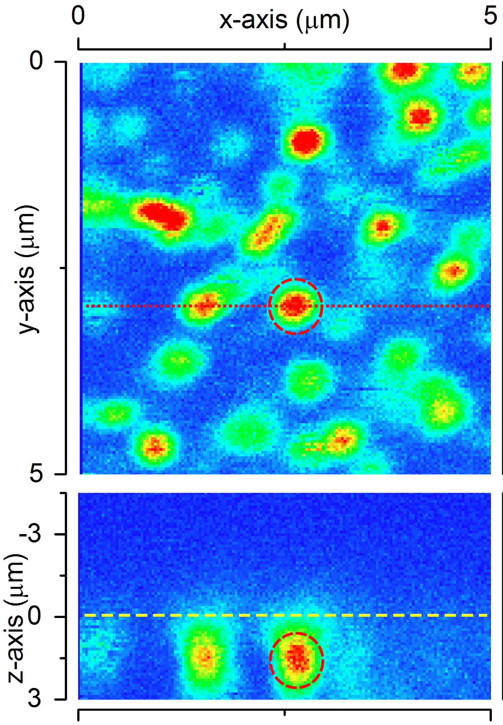 Luminescence map of the silicon-vacancy center in diamond, which was created by implanting Si ions. Top: x–y surface scan; bottom: x–z depth scan at position where a thin red dot line was marked in a, yellow-dashed line indicates the diamond sample surface.